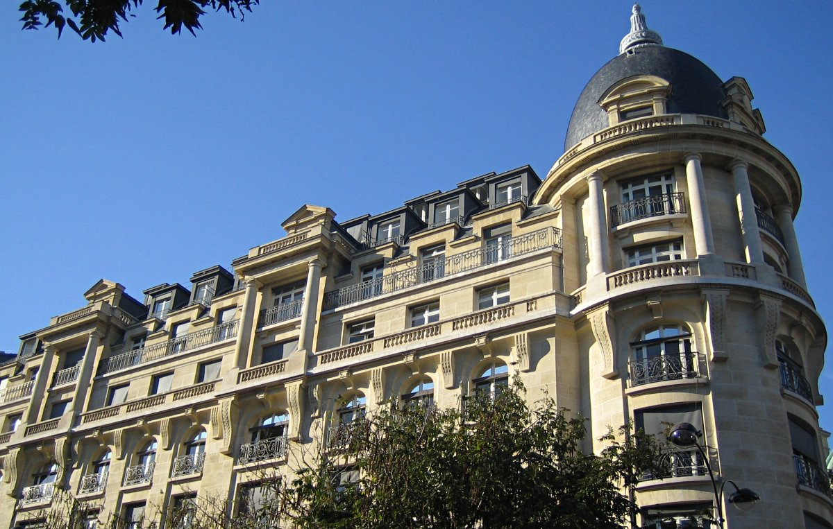 2, boulevard des Italiens, Paris. Photo taken by Thierry Bézecourt to show the impact of the 1902 decree.